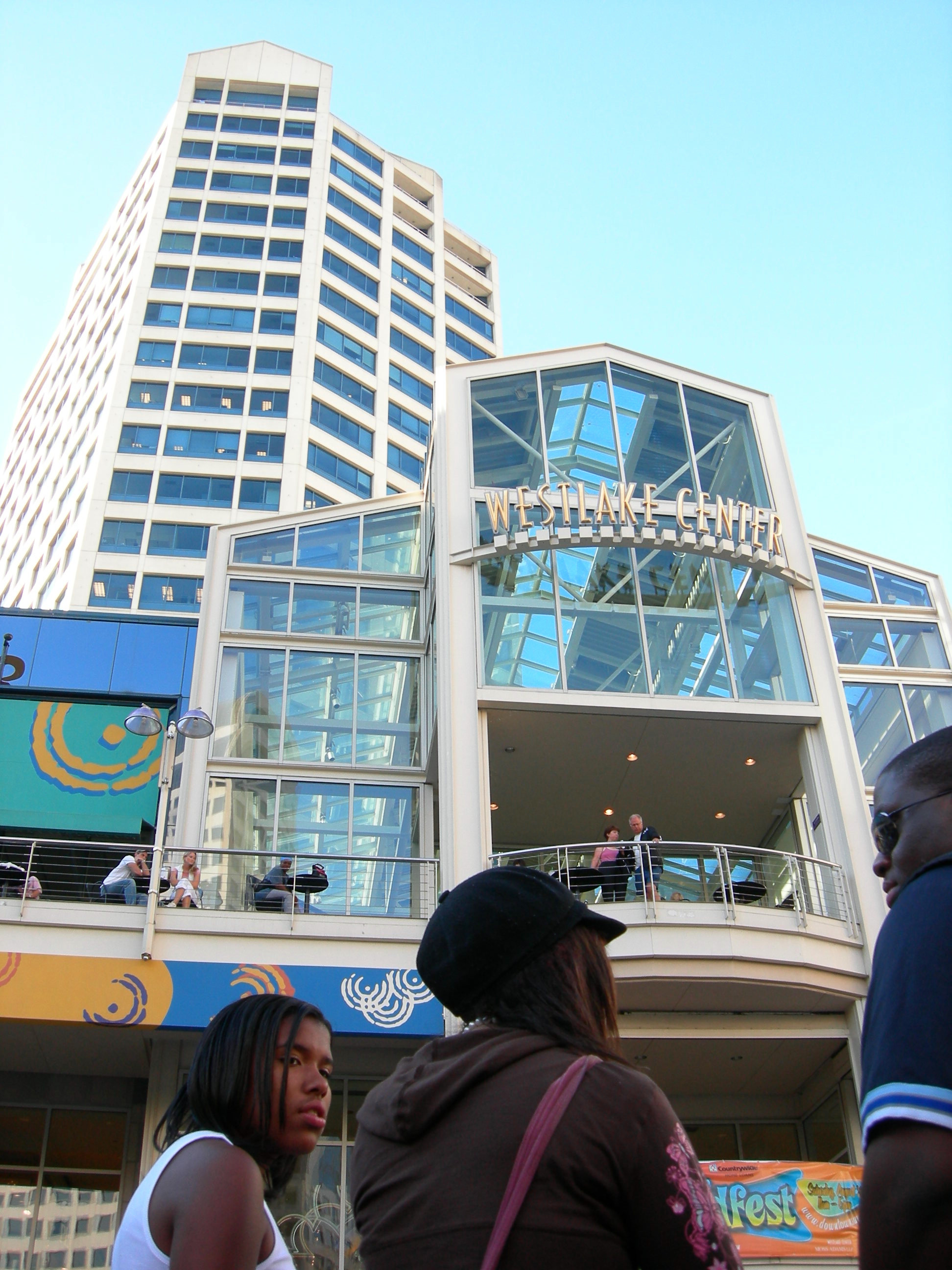 Westlake Center, Seattle, Washington